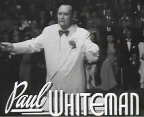 Cropped screenshot of Paul Whiteman from the trailer for the film Rhapsody in Blue.